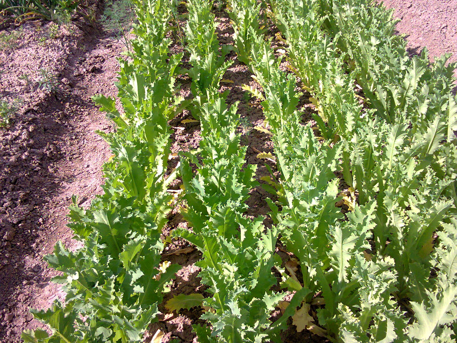 Papaver somniferum in Lónyaytelep (Lonea/Petrila), Transylvania.